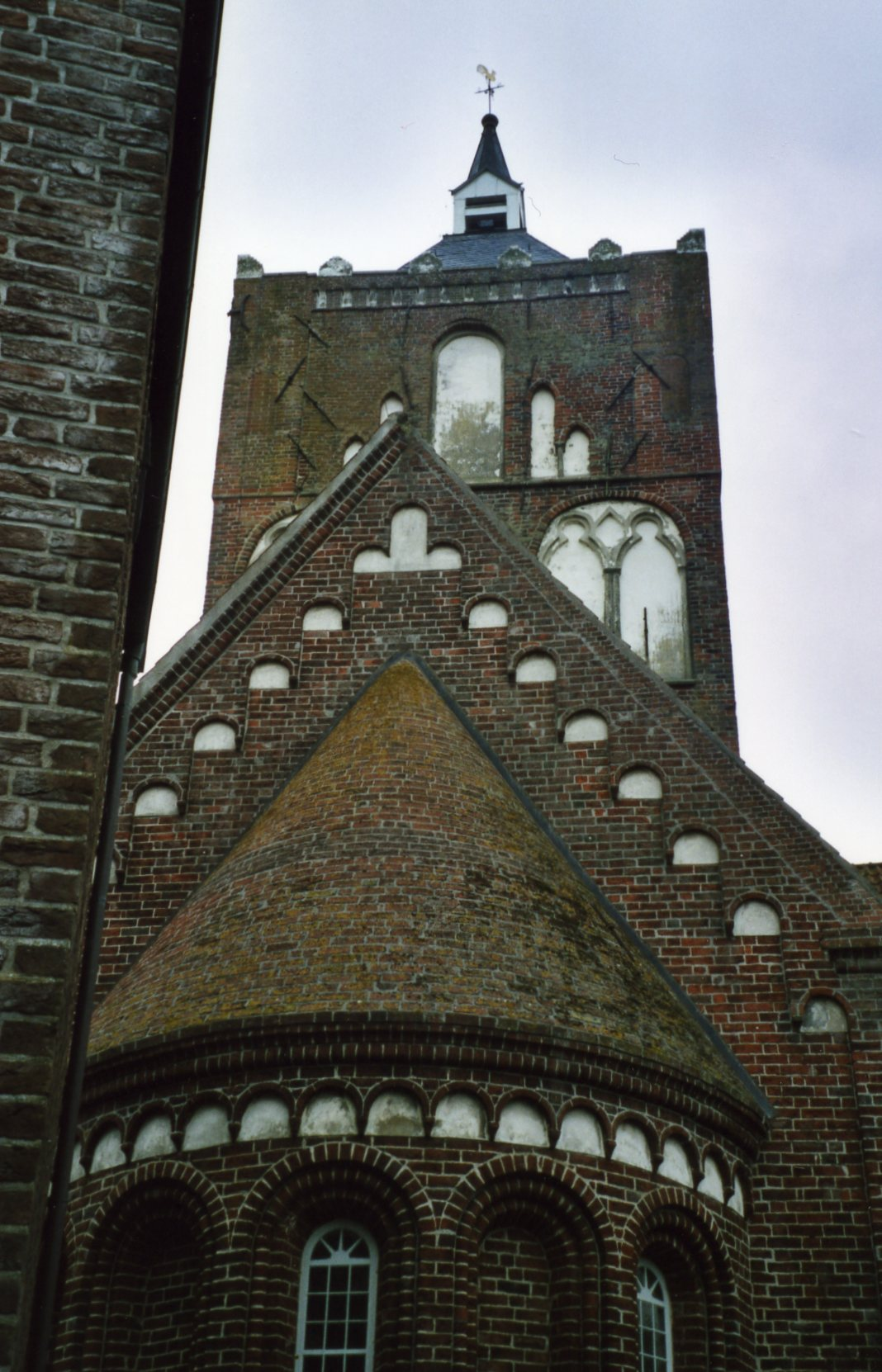 Church in Pilsum, Krummhörn, Germany Photo: Frans van Nes, July 2006